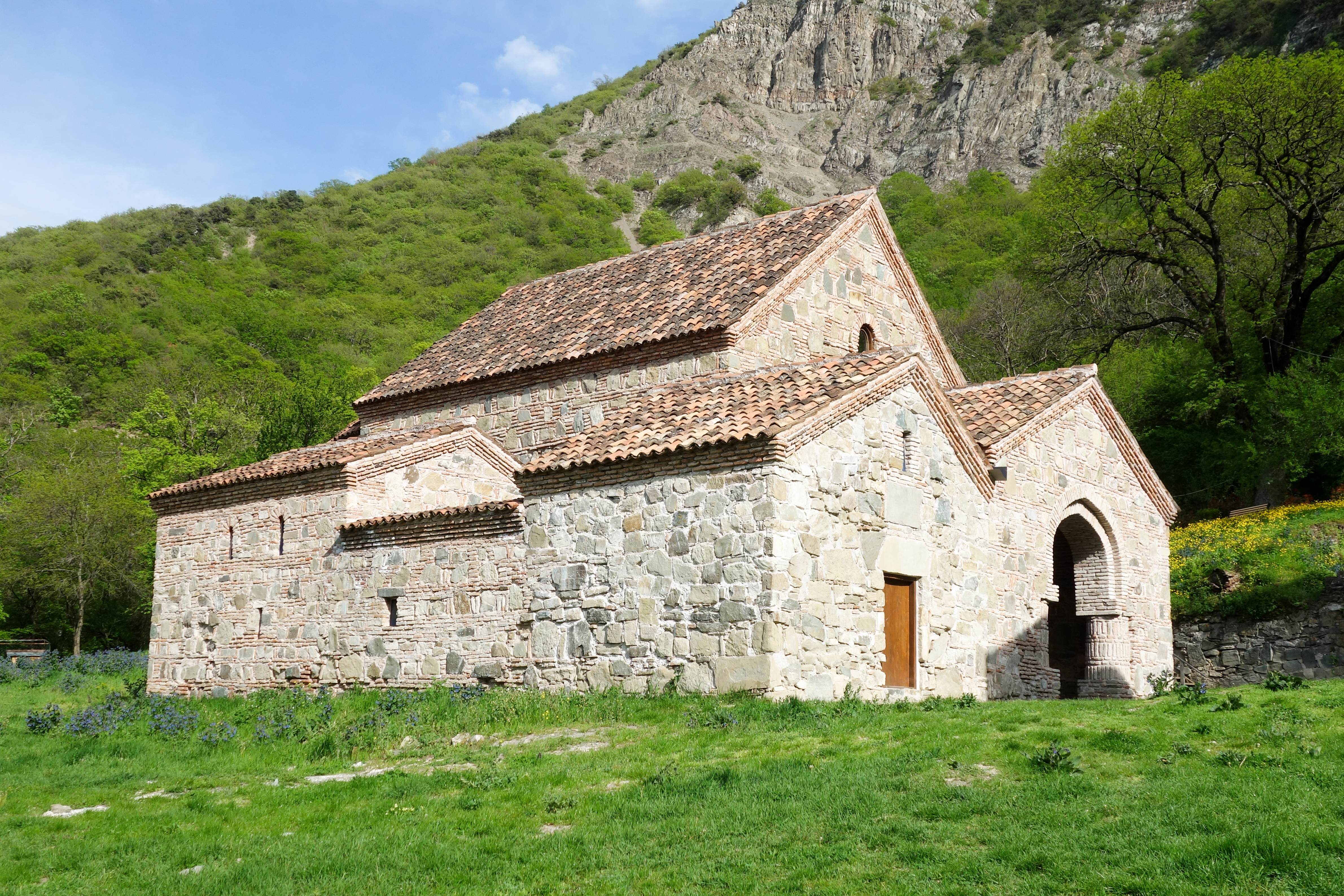 Mother of God Church (XII c.) in Armazi Valley, Mtskheta Municipality, Georgia